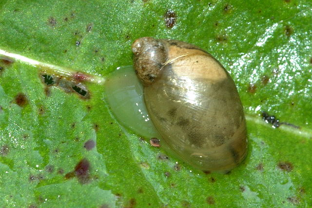 Picture taken in Commanster, Belgian High Ardennes . Species: Succinea putris